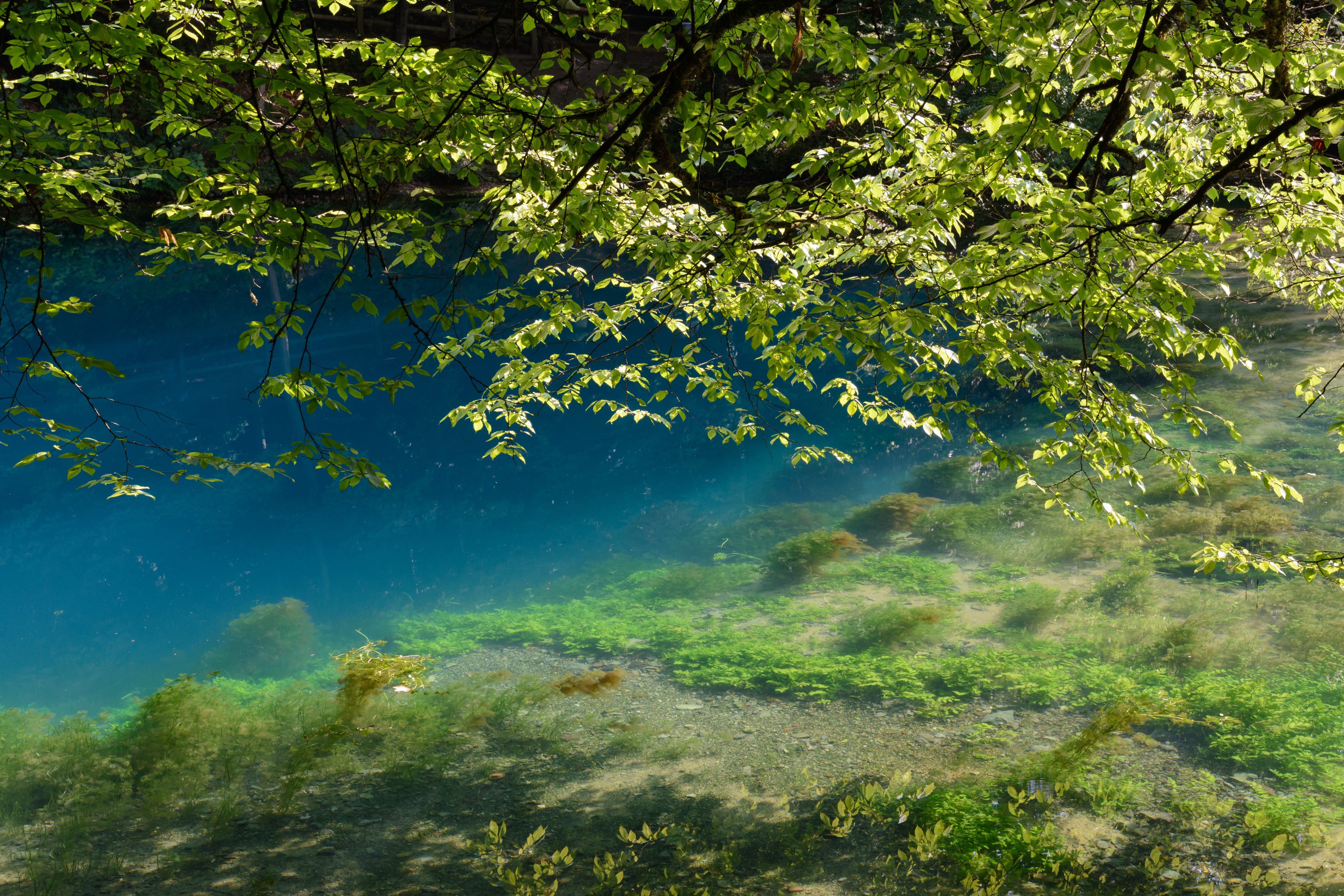 Blautopf pond in Blaubeuren, Baden-Württemberg, Germany